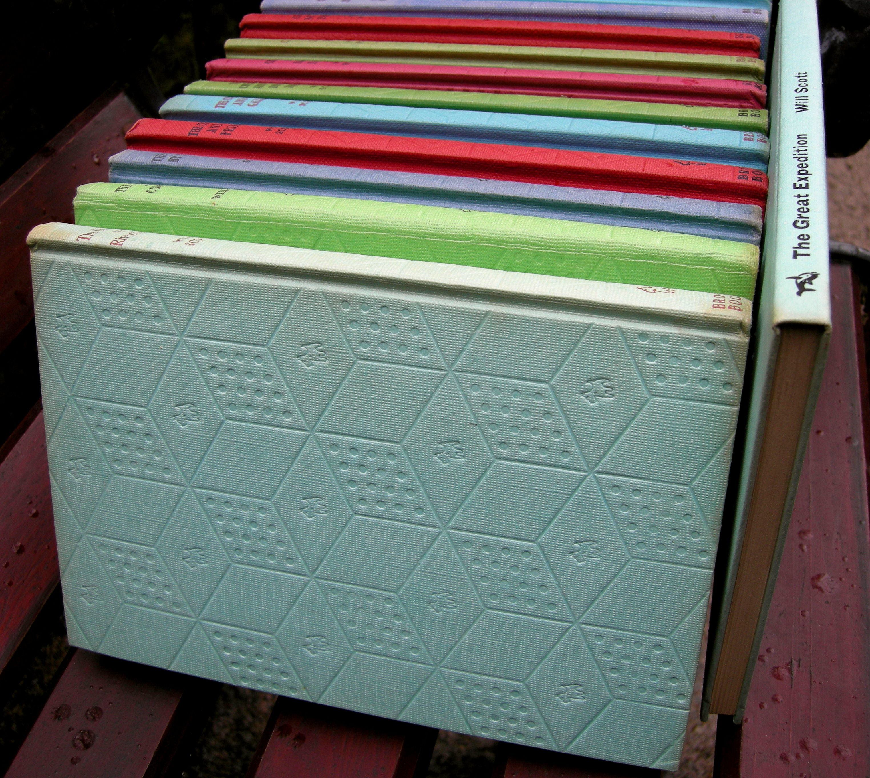 Books from The Cherrys series by Will Scott, plus one other. Published in the 1950s and 1960s.